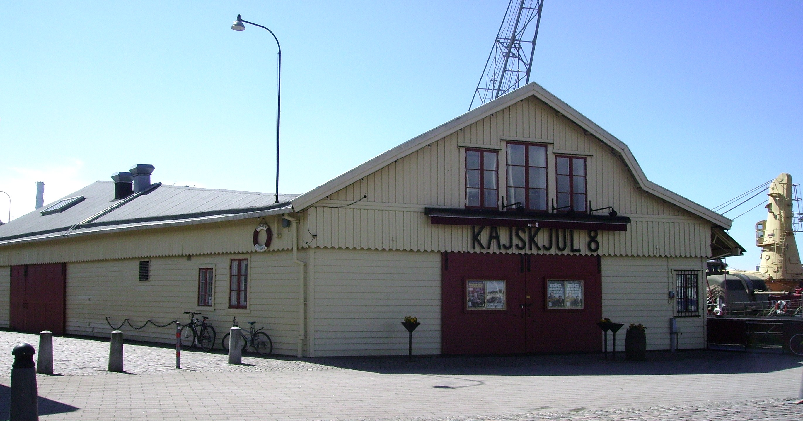 Picture of Kajskjul 8 in Göteborg